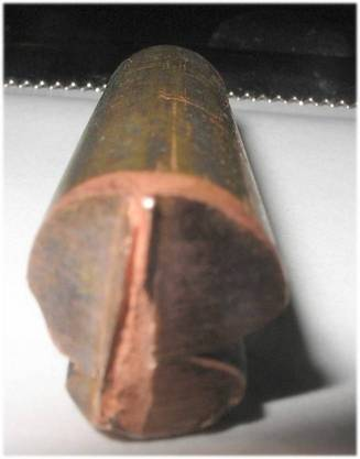 a piece of wire of Polish railway overhead catenary